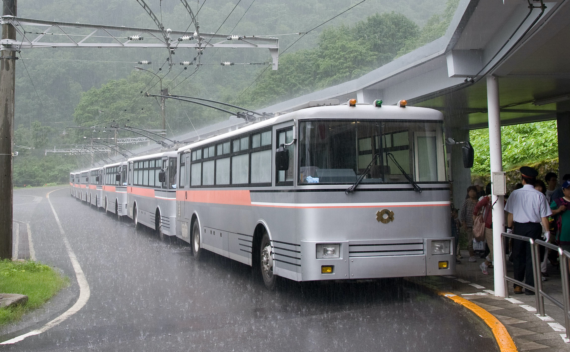 A line of seven trolleybuses at Ogizawa Station, on the Kanden Tunnel trolleybus line, in Omachi City, Nagasaki Prefecture, Japan.